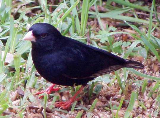 A male Variable Indigobird (Vidua funerea). Location: Pietermaritzburg, South Africa. For more information on this species